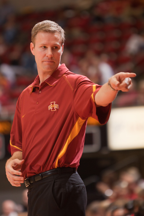 Fred Hoiberg in his first game as head coach for Iowa State Basketball.